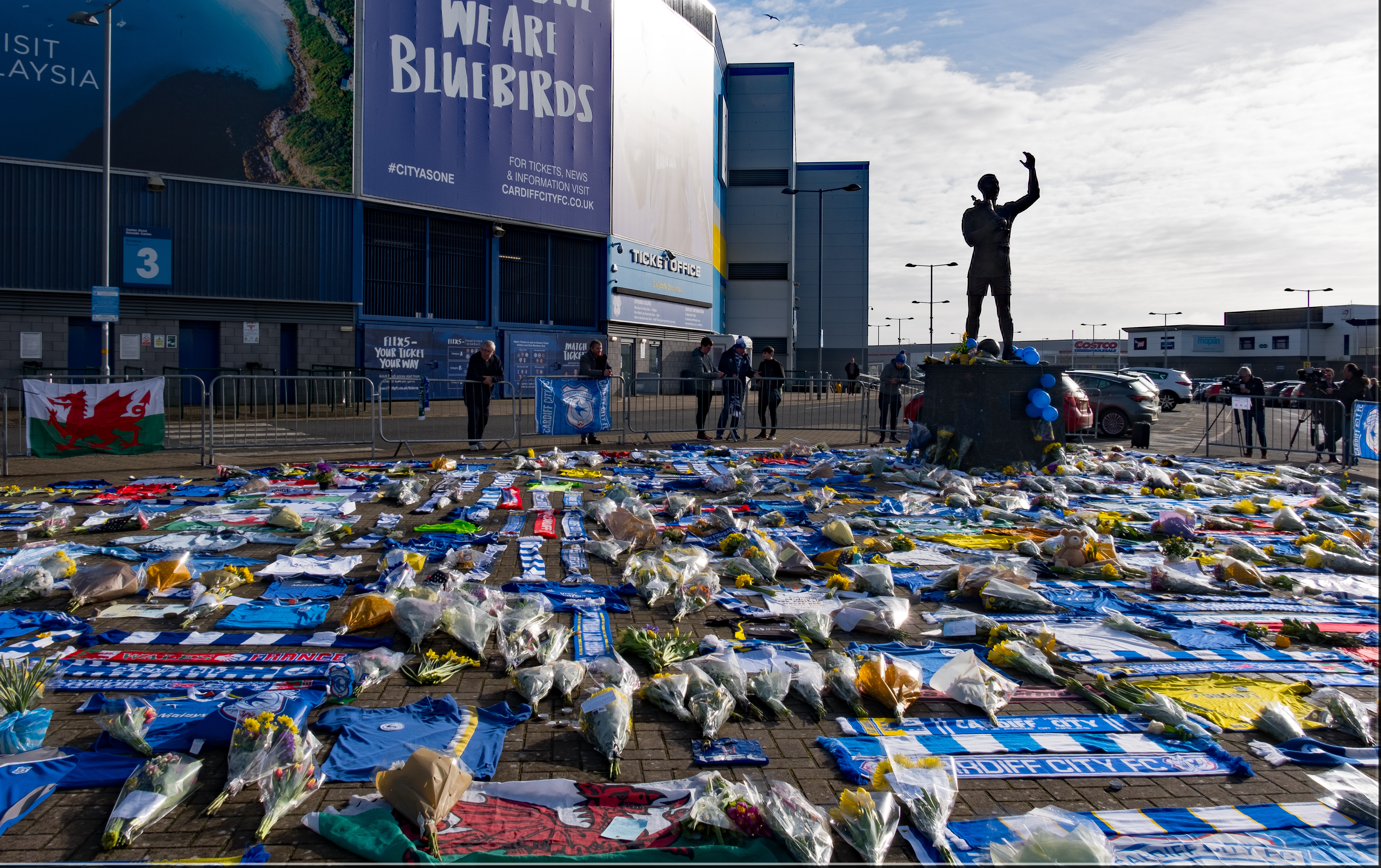 Tributes at the Cardiff City Stadium for the missing Cardiff City (former FC Nantes) footballer Emiliano Sala.